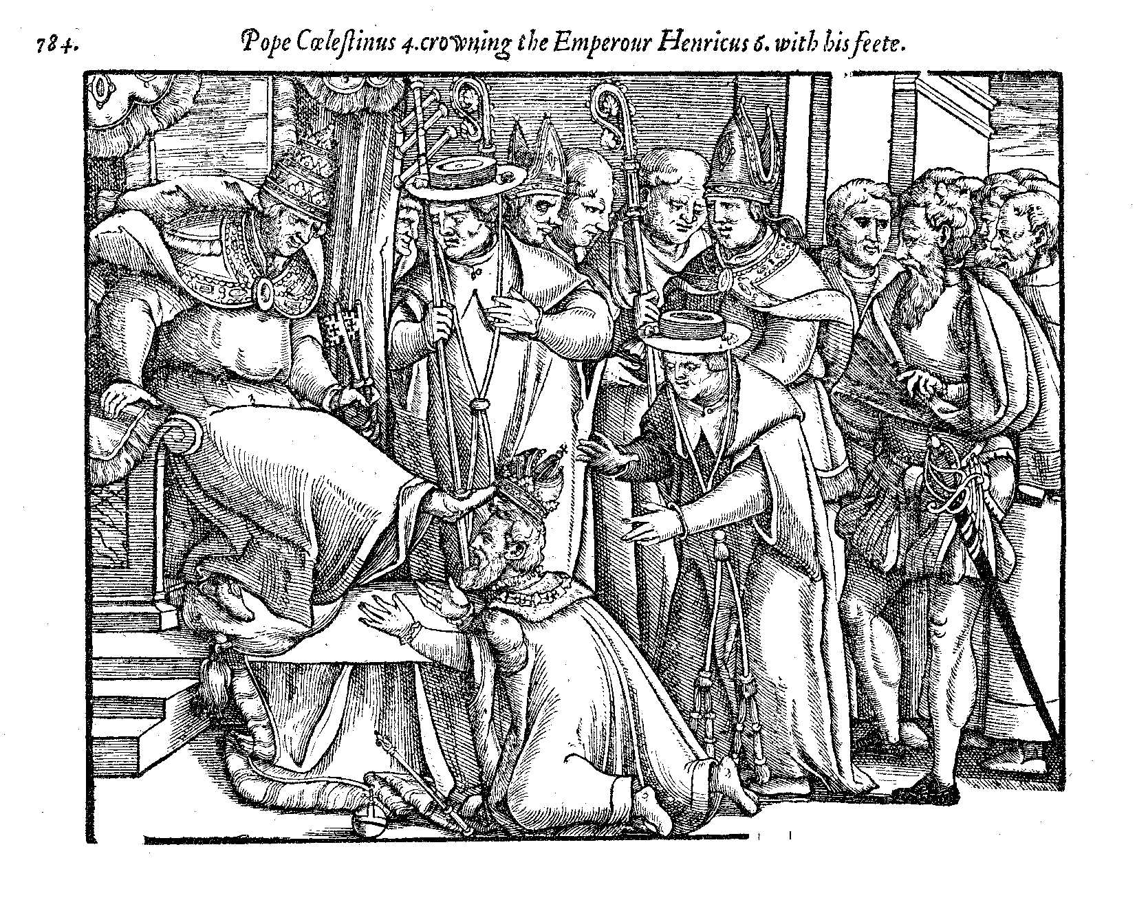 Pope Caelestinus IV crowning the Emperor Henry VI with his feet. Note: This pope is currently known as Caelestinus III, the publisher probably considered antipope Caelestinus II (1124) a true pope.